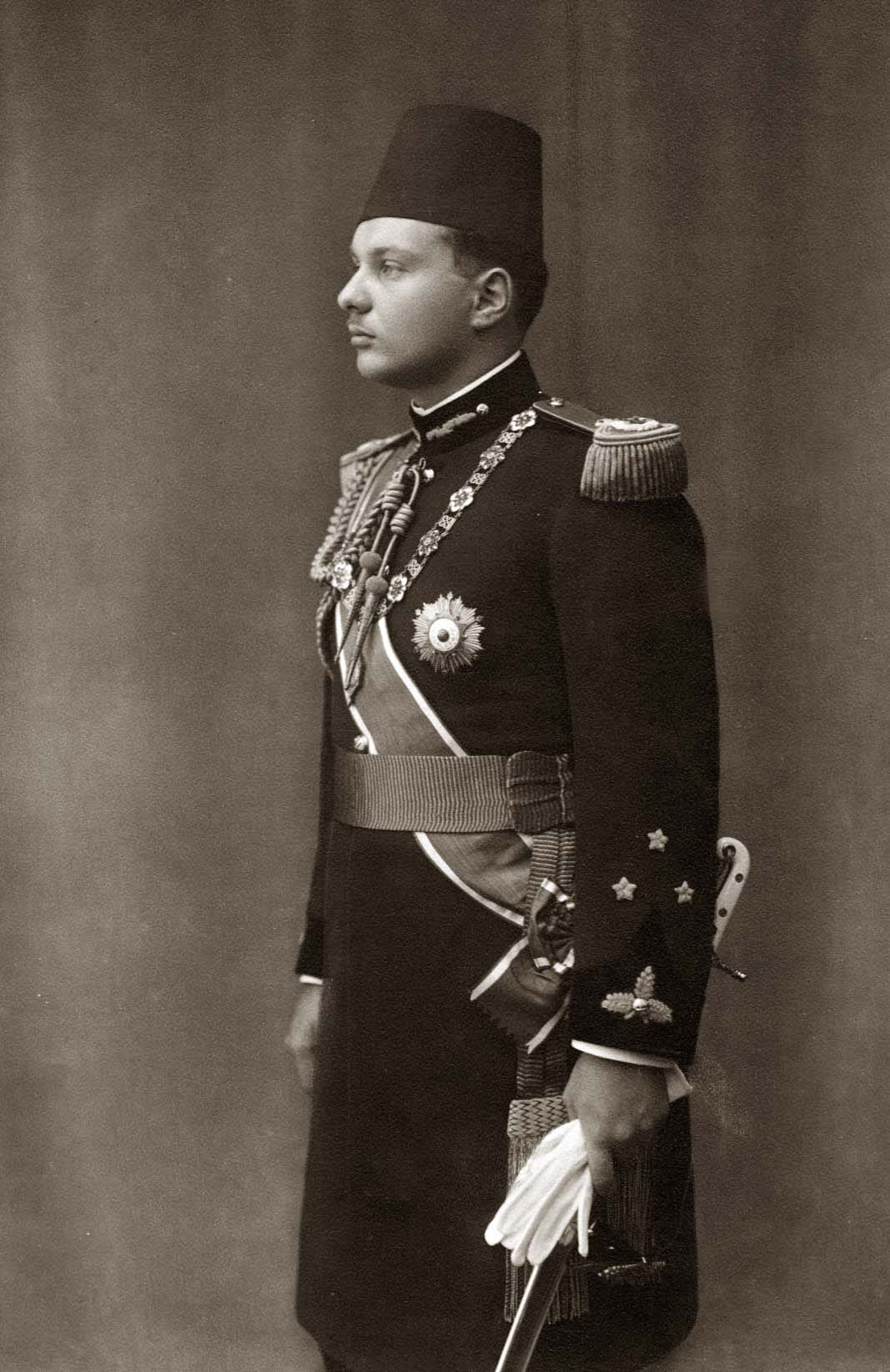 King Farouk I of Egypt in military uniform displaying several medals and decorations.